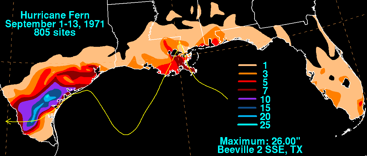 Storm total rainfall map of Hurricane Fern during September 1971.